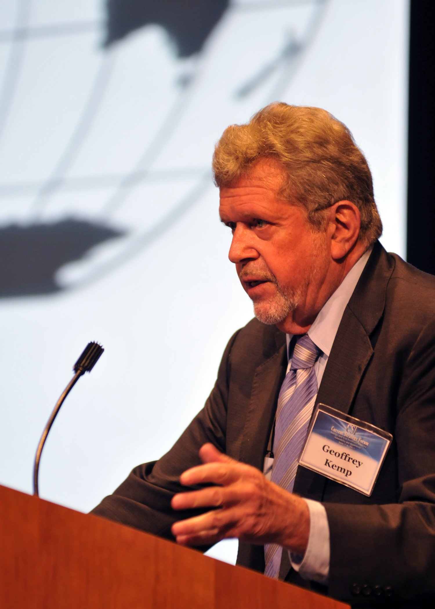 Naval War College Current Strategy Forum: Energy and US National Security Vulnerability and Opportunity